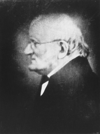 John Dalton circa 1835.